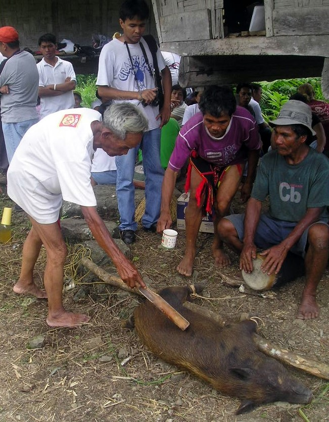 The mumbaki in a ritual before the pig is butchered for a feast. Dipdipo also refers to an Ifugao drum like the one used by the man on the right. Olympus Camedia (SITMO Dipdipo Ritual, June 2005). Slightly improved with Picasa.